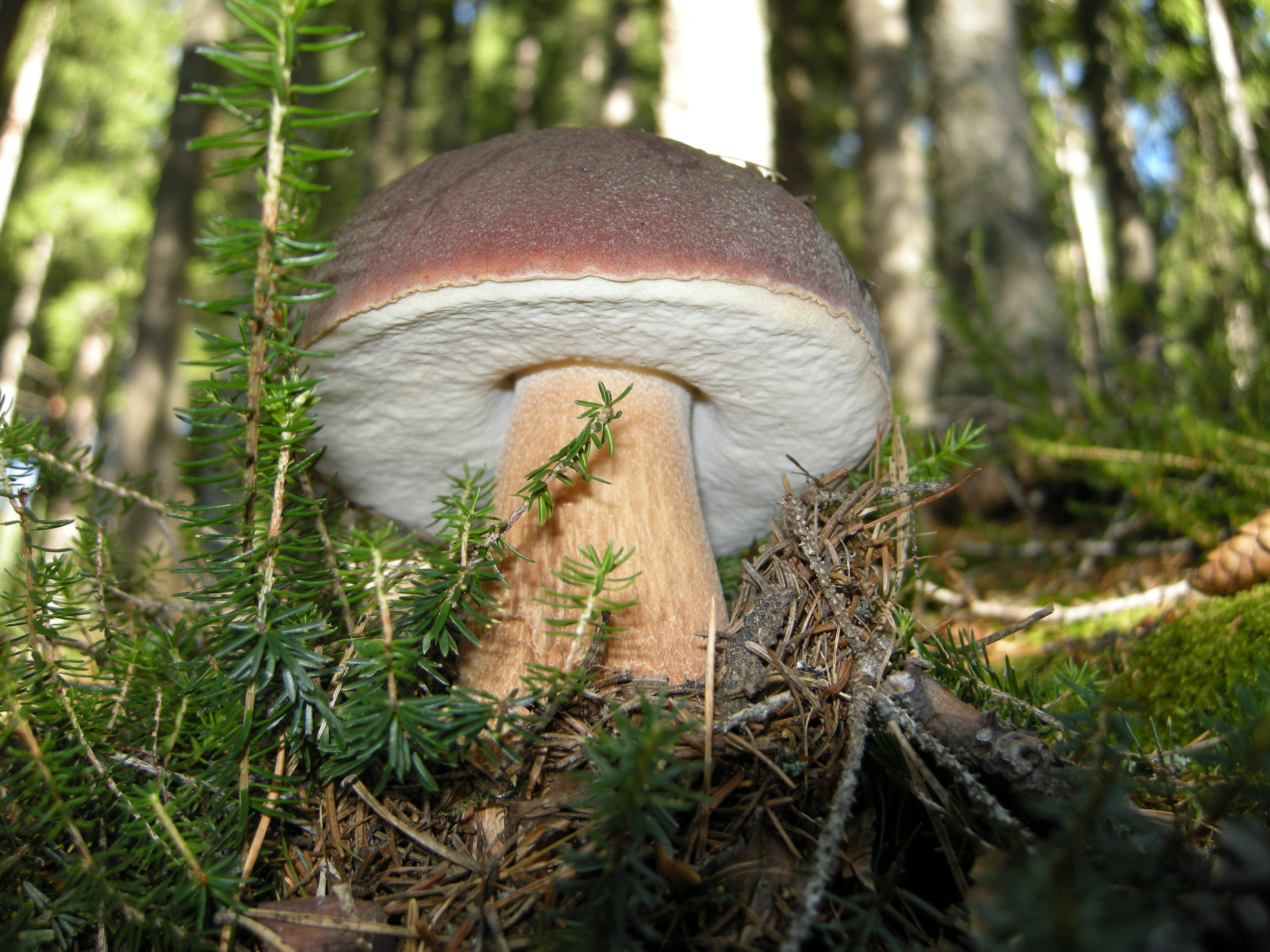 A nice Boletus edulis mushroom found near the road from Cavalese to the Lavazè pass in Trentino, Italy